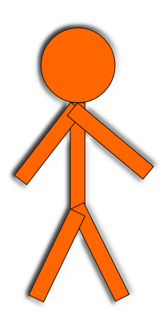 UML Actor